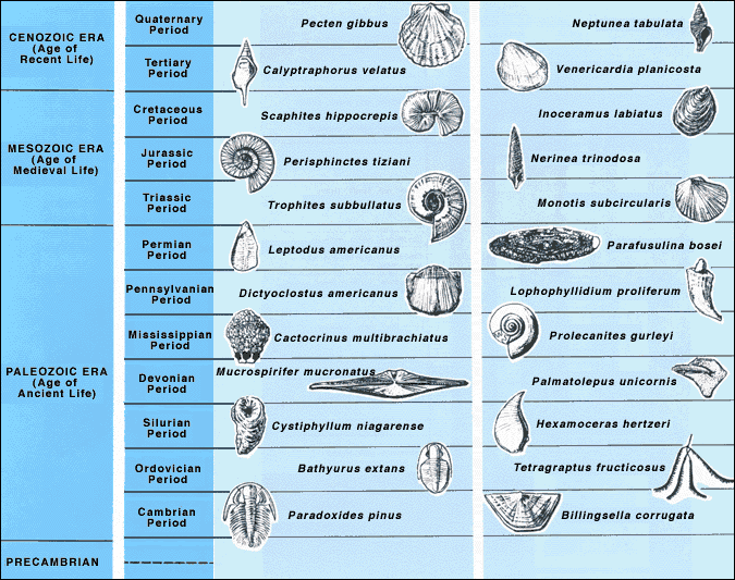 examples of index fossils